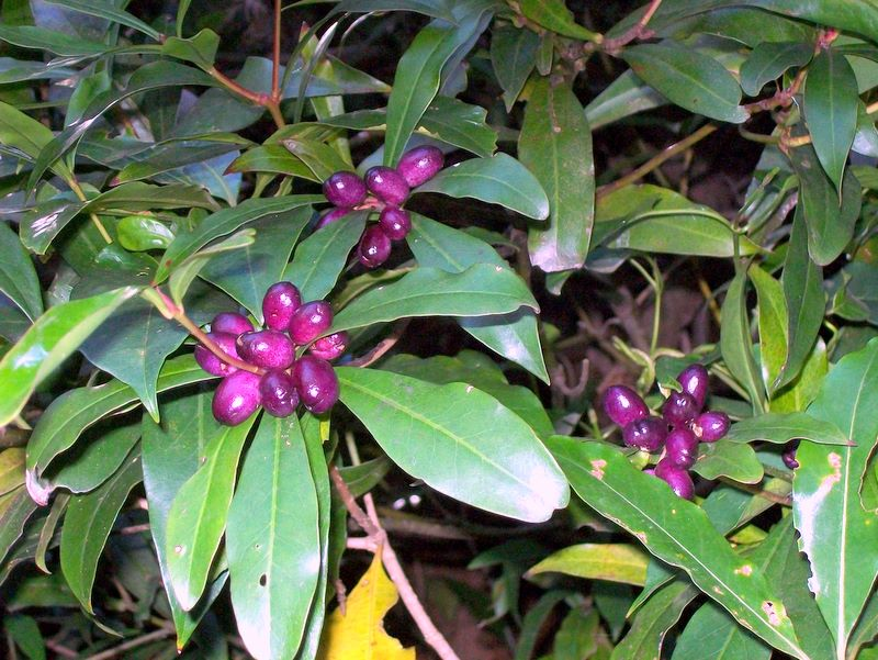 Tasmannia insipida, Minnamurra_Falls_Carpark, Budderoo National Park, Australia